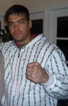 Photo of Lyoto Machida taken in 2008.